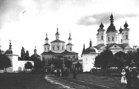 Svensky Monastery near Bryansk City, 20th century beginning.